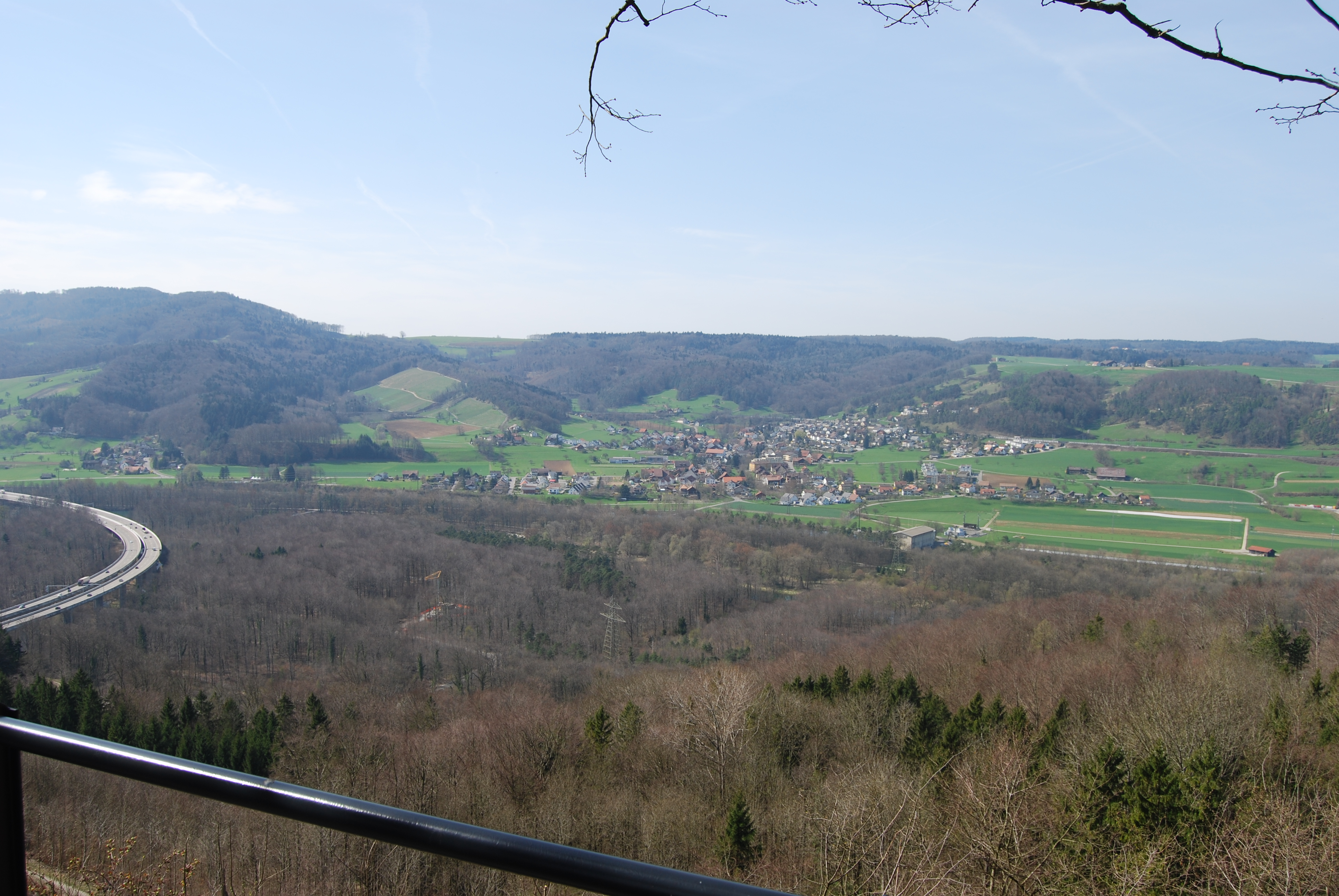 Villnachern and Swiss Highway A3 seen from Castle Habsburg, canton of Aargau, SwitzerlandEsperanto: Villnachern kaj svisa aŭtovojo A3 viditaj de Kastelo Habsburgo, Kantono Argovio, Svislando